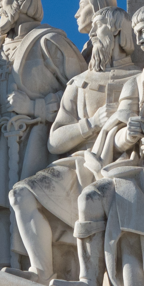 Effigy of Pedro Álvares Cabral (1467 or 1468 – 1520), Portuguese navigator, in the Padrão dos Descobrimentos (Monument to the Discoveries), in Lisbon, Portugal.